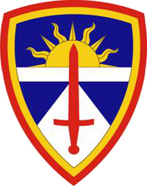 U.S. Army's Test and Evaluation Command Shoulder Sleeve Insignia